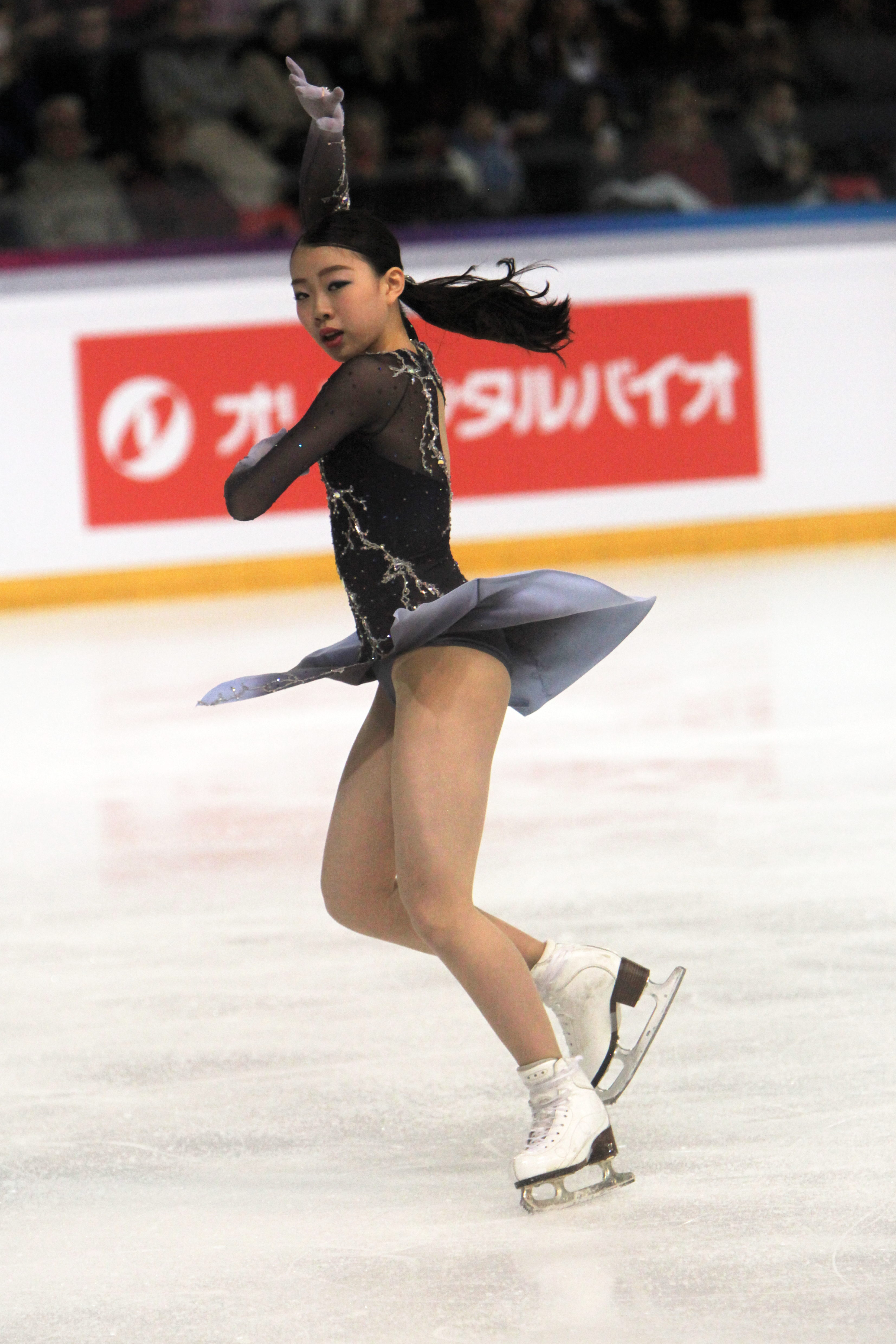 Rika Kihira during the Ladies Free Skating at the Internationaux de France de Patinage 2018.